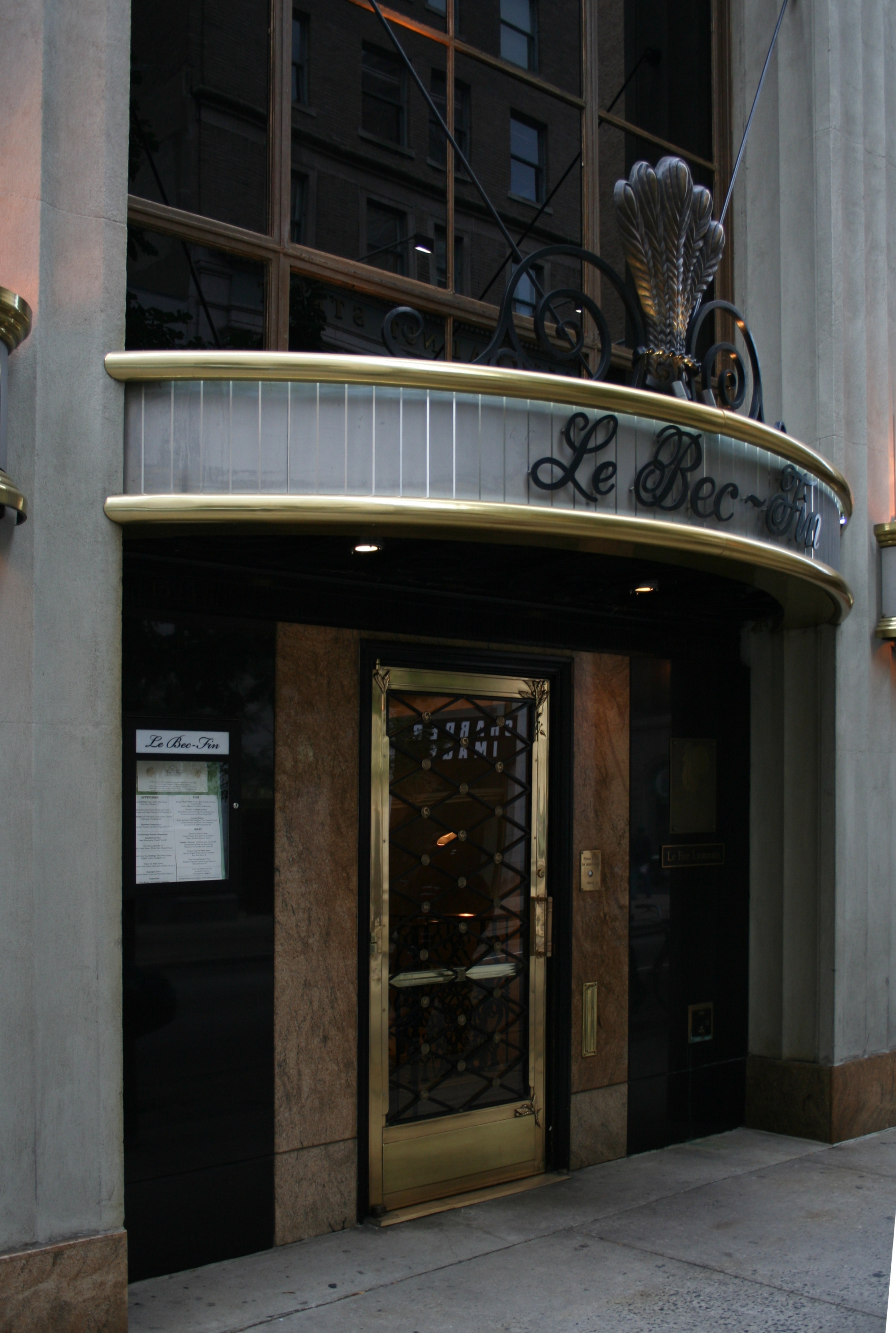 Philadelphian (former 5-star) restaurant .